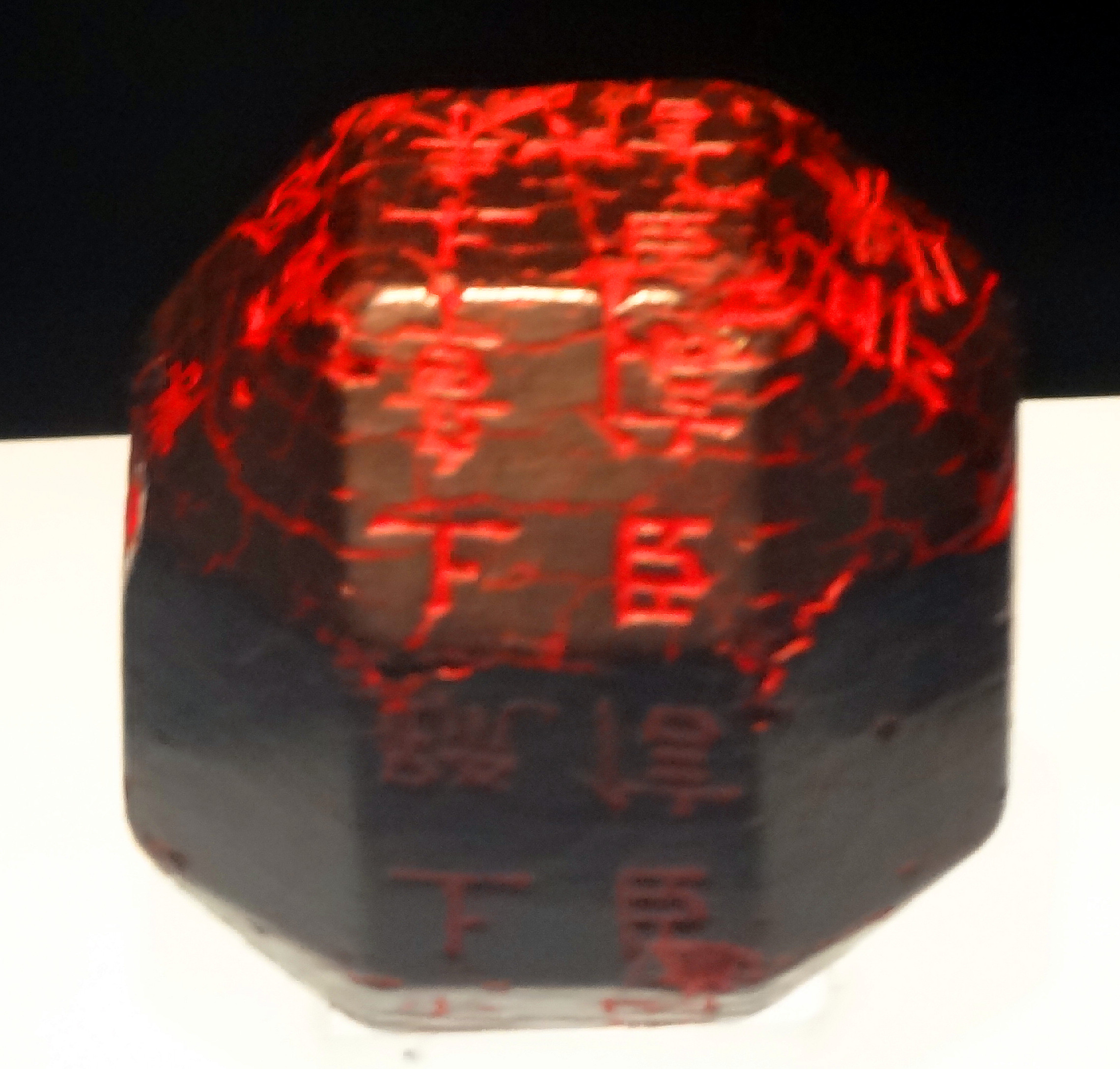 The seal is in a spherical shape with eight ridges, including 18 square faces and 8 triangular faces, its owner was the famous minister of Western Wei Dynasty Dugu Xin.